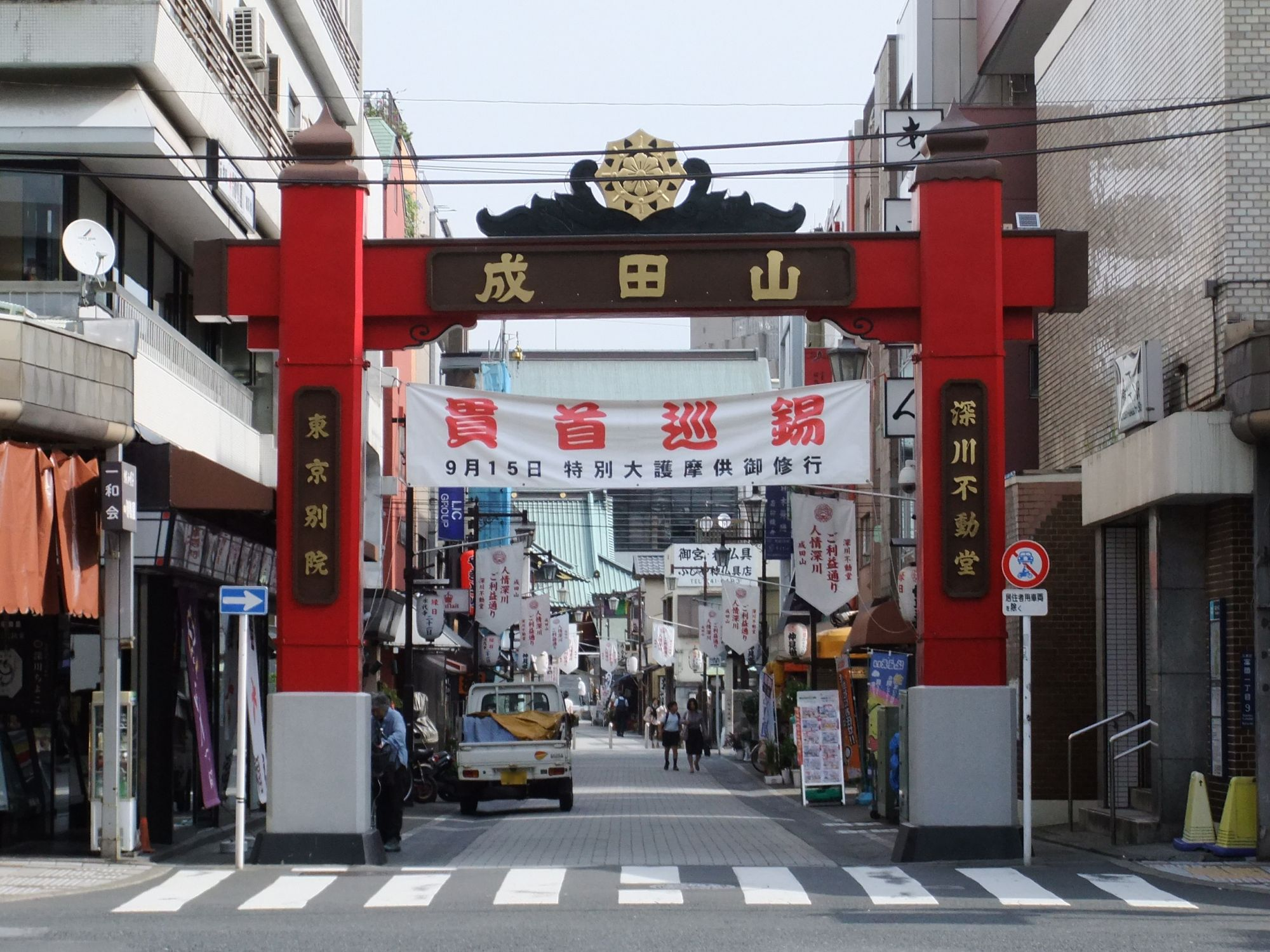 The approach to Fukagawa Fudō-dō temple in Koto-ku, Tokyo